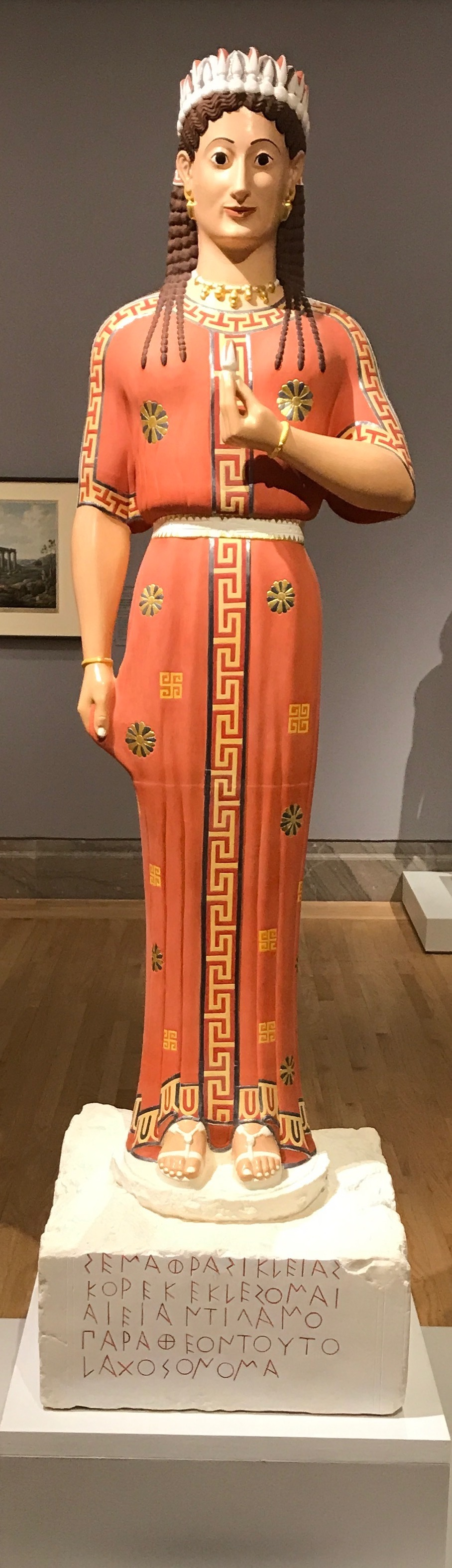 Phrasikleia Kore polychromy re-creation, Gods in Color, San Francisco, California, 2017.